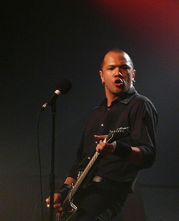 Danko Jones (Can) @ Club 106 - Rouen (France) - 22/04/2008